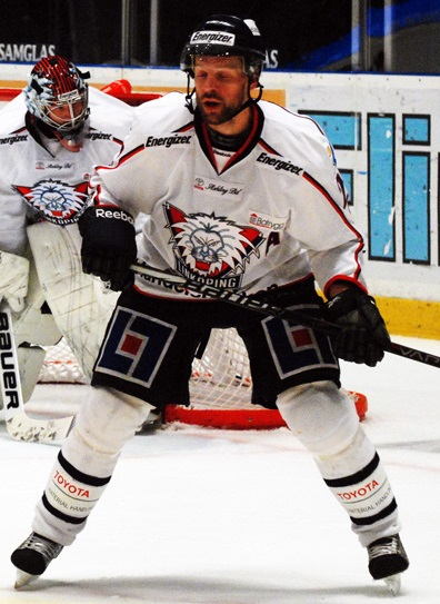 Niclas Hävelid during a SHL game against AIK.